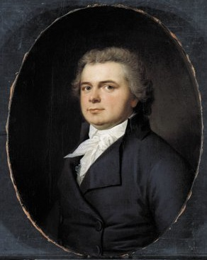 Peter Nicolai Arbo (1768-1827) painted by Jens Juel